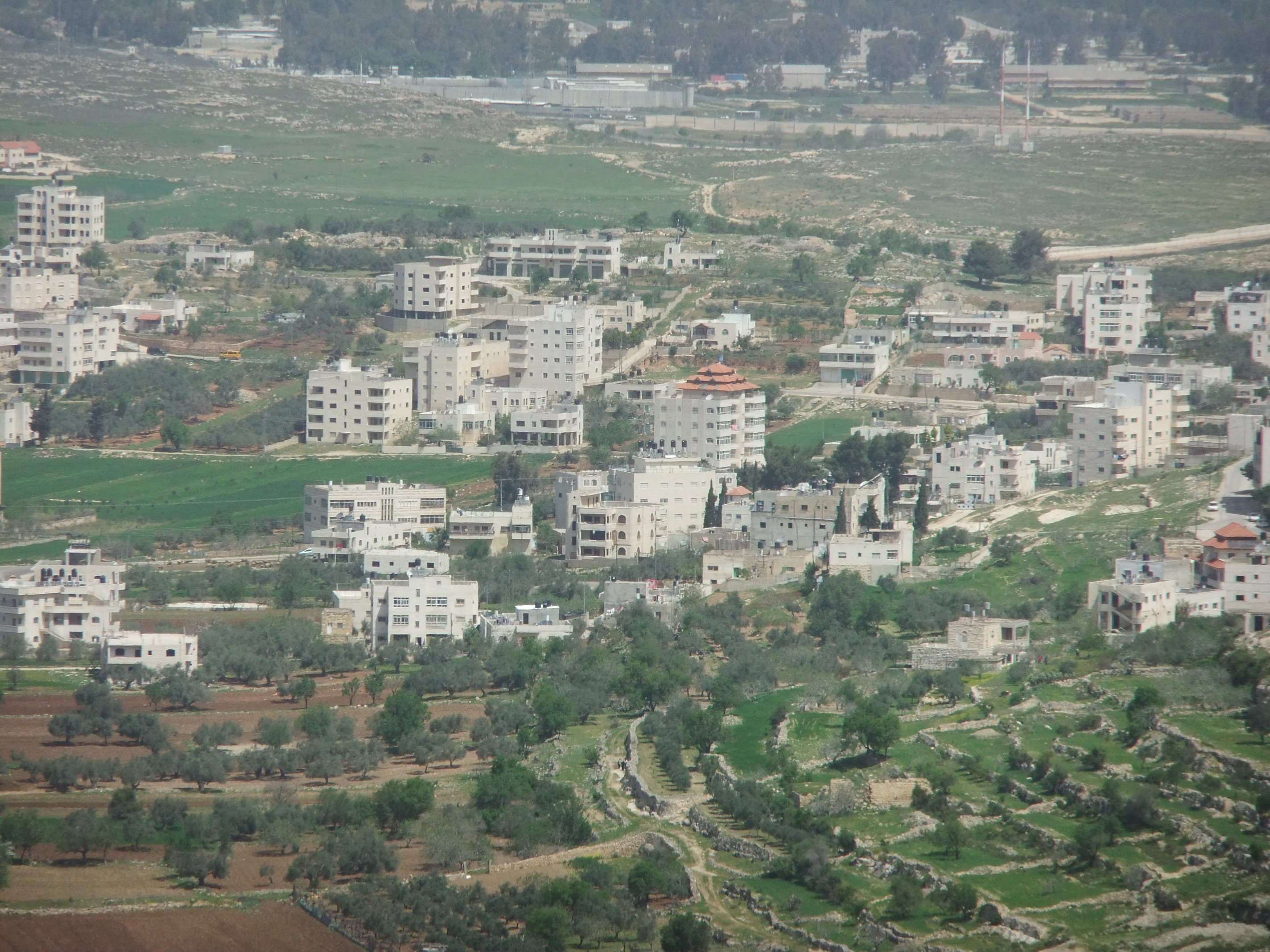 Central El Jib viewed from tomb of Samuel